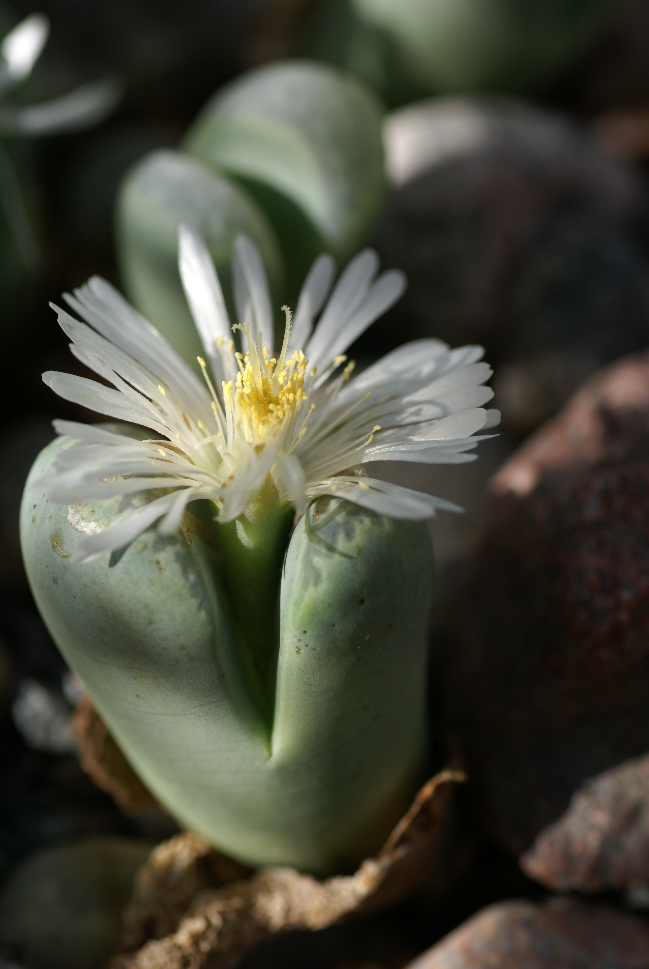 Plant species Lithops marmorata in botanical garden in Helsinki city.